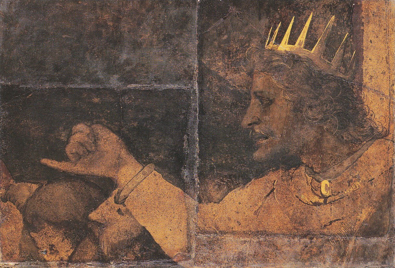 Fragment of the wall painting in the Great Council Chamber of Basel Town Hall. Holbein began working on the murals for the Council Chamber during the 1520s, painting classical subjects. After his return from a two-year visit to England (1526–28), he was commissioned to resume the task, but this time to provide murals based on Old Testament subjects, in keeping with the new Reformation doctrines of the authorities. These murals were one of several large-scale projects undertaken by Holbein that are now known only from a few fragments and preparatory sketches, including a drawing of Rehoboam from a frontal position. This section is the largest of those that were removed from the wall in the 19th century and preserved. It portrays Rehoboam, the son of Solomon, whose arrogant government led to his people's rebellion and the loss of part of his kingdom. He holds out his little finger, saying, "My little finger is thicker than my father's waist!" The murals reminded the councillors of the need for wise and godly government. References Christian Müller; Stephan Kemperdick; Maryan Ainsworth; et al, Hans Holbein the Younger: The Basel Years, 1515–1532, Munich: Prestel, 2006, ISBN 9783791335803, p. 412. Derek Wilson, Hans Holbein: Portrait of an Unknown Man, London: Pimlico, 2006, ISBN 9781844139187, p. 162.